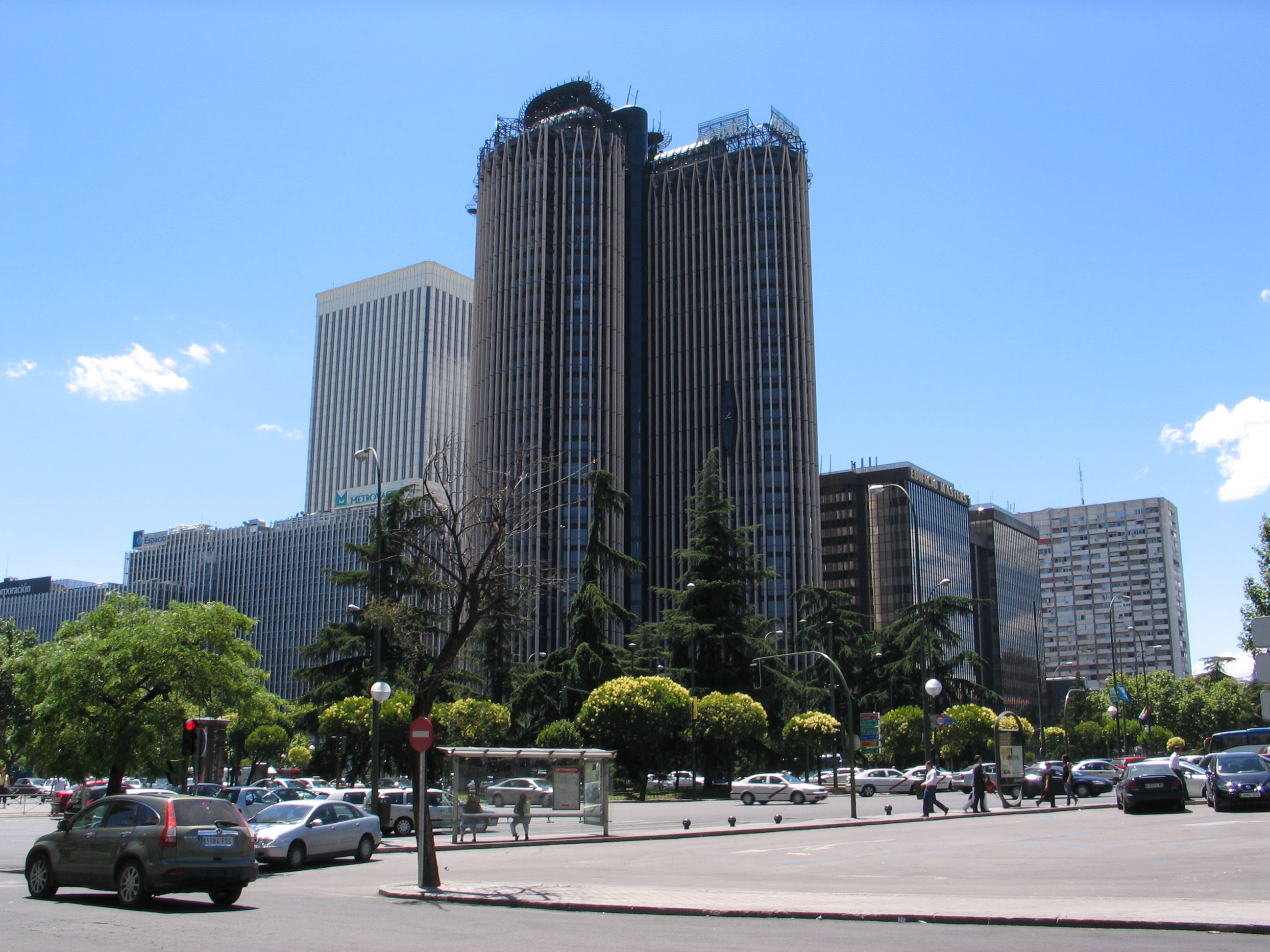 A view of AZCA business park in Madrid (Spain) from Plaza de Lima (square). Centre: Torre Europa.